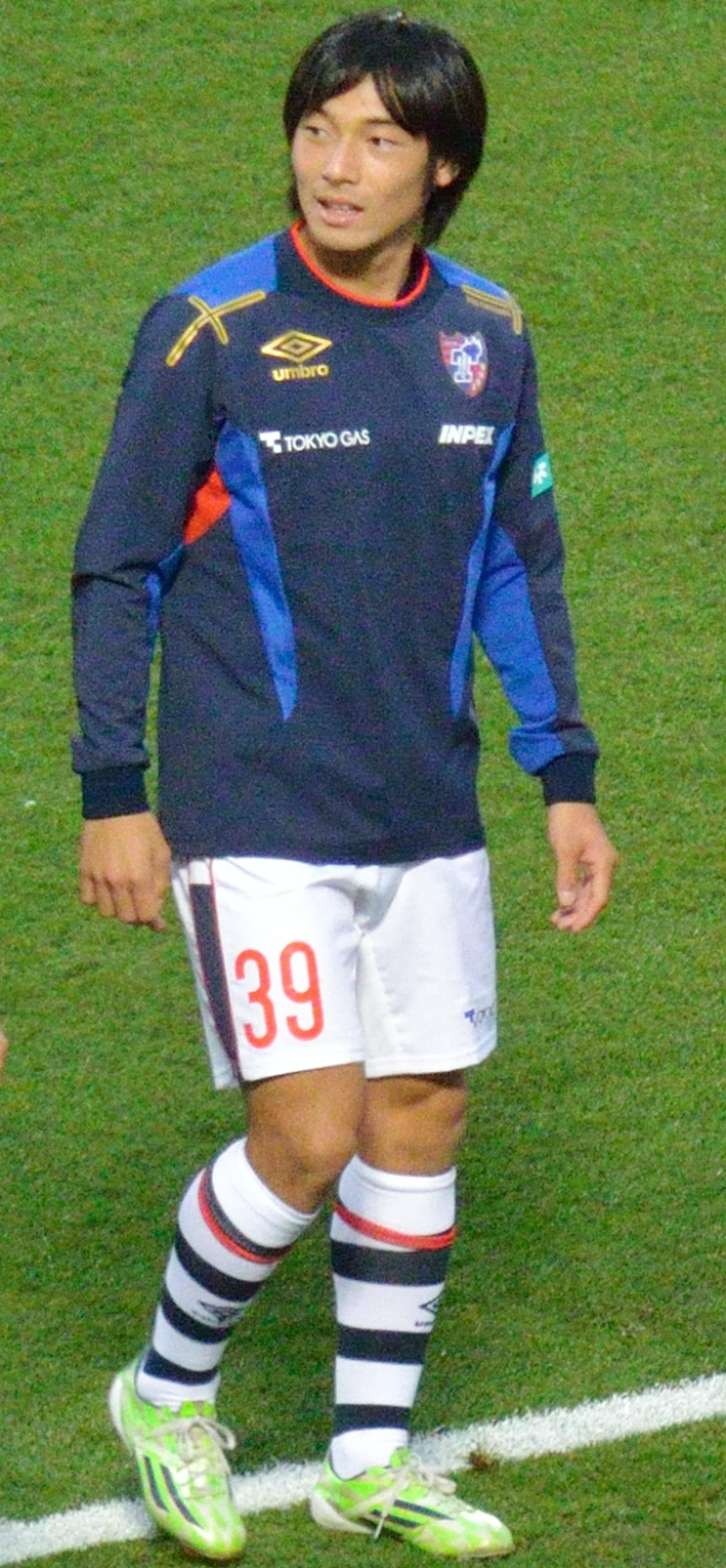 Shoya Nakajima from FC Tokyo